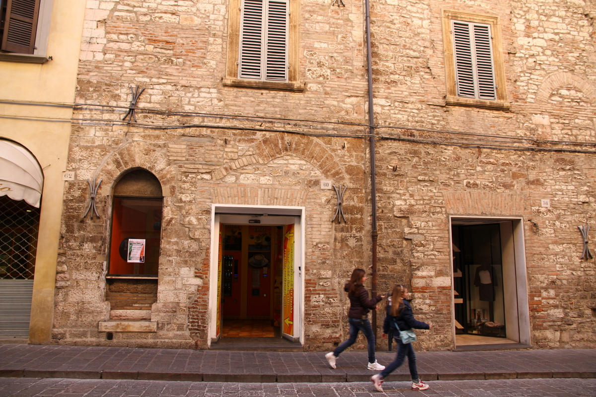 A porta dei morti (door of the dead) that has been turned into a window in Gubbio